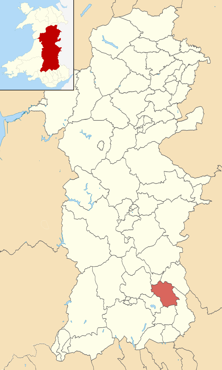 Location map of Felin-fach electoral ward in Powys, Wales (the ward boundaries are coterminous with the Talgarth community)